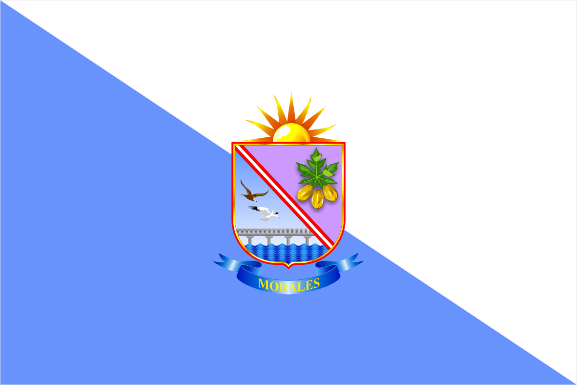 Flag of the District of Morales - Province of San Martín - Region San Martín